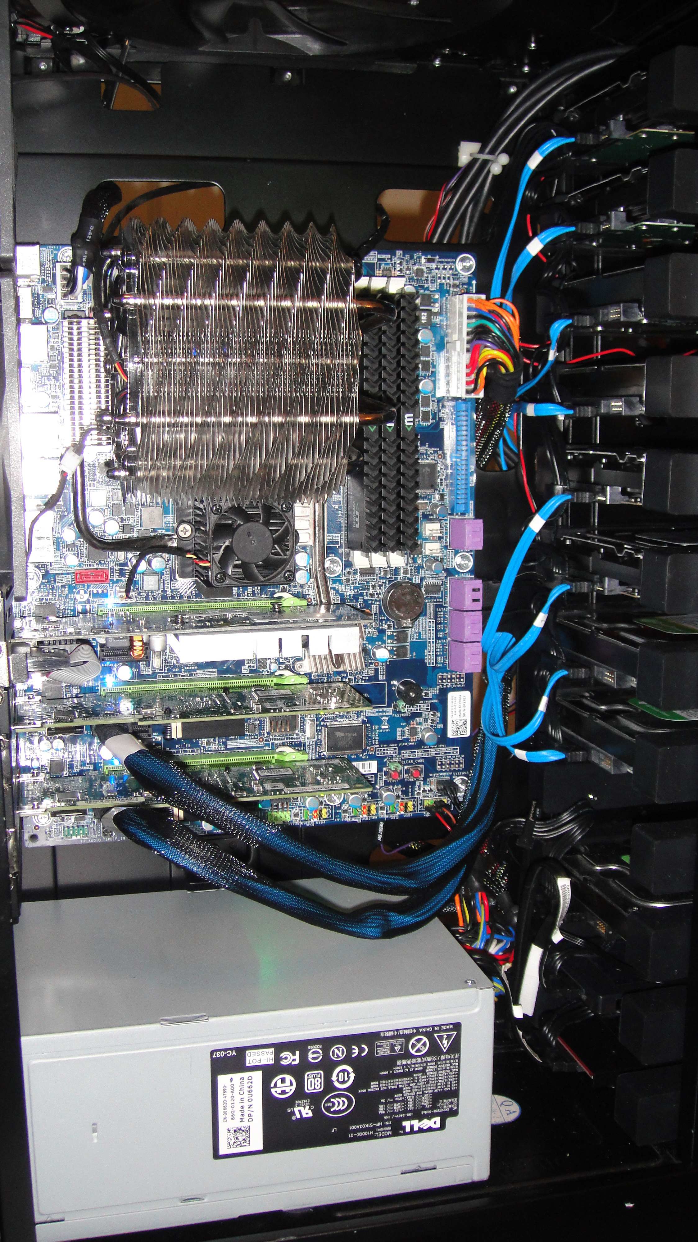 A picture of the Dell XPS 730X ATX motherboard and Dell XPS 730/730X 1000W ATX PSU installed into a standard ATX chassis. Note the PSU is oversized, larger than typical ATX PSUs.